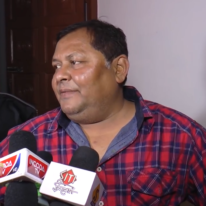 Kharaj Mukherjee, in an interview, 2018. This image has been taken from a video which is licensed under CC licenses.